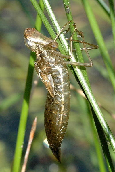 Picture taken in Commanster, Belgian High Ardennes . Species: Anax imperator exuvium